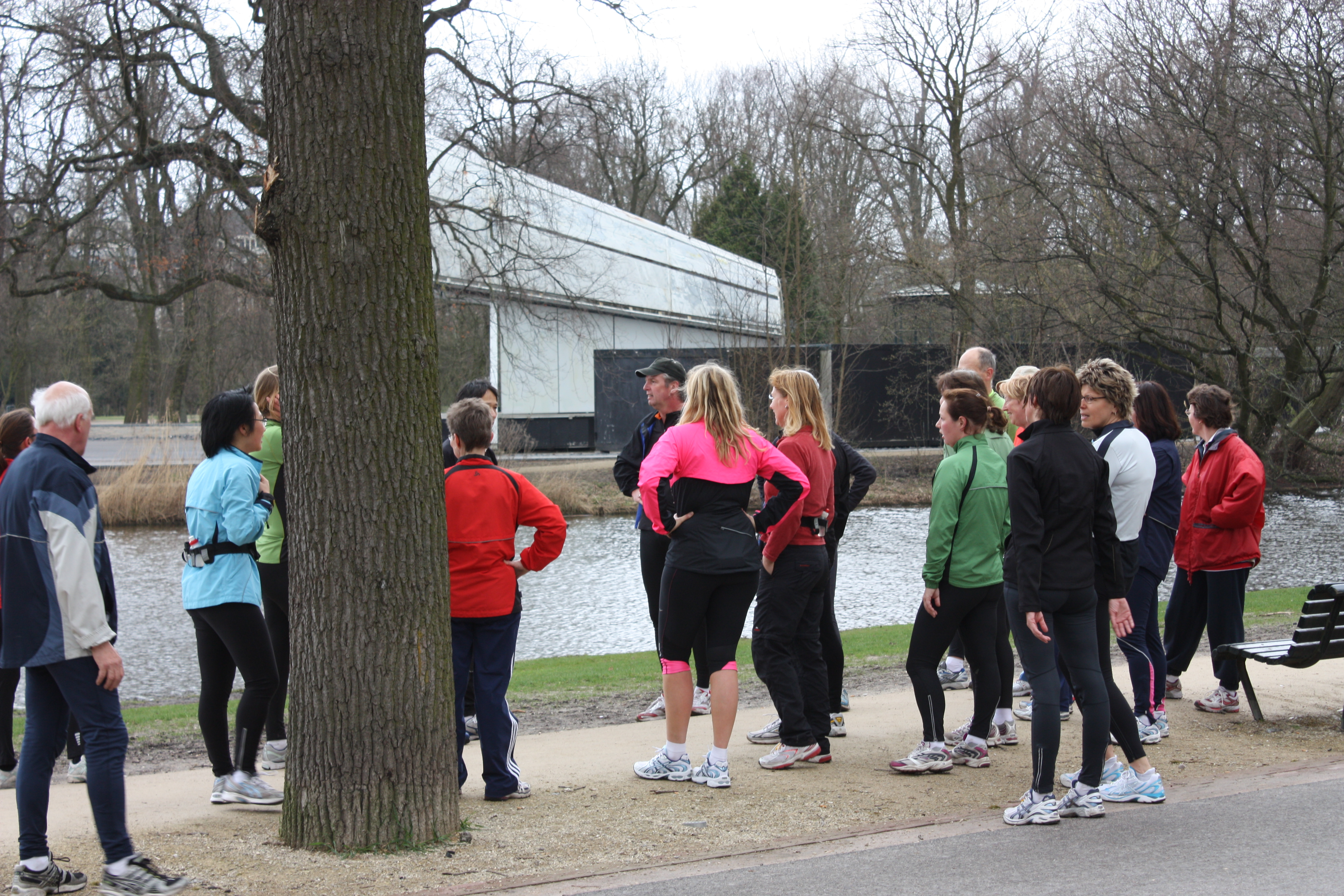 Vondelpark, Amsterdam, Netherlands, March 2010